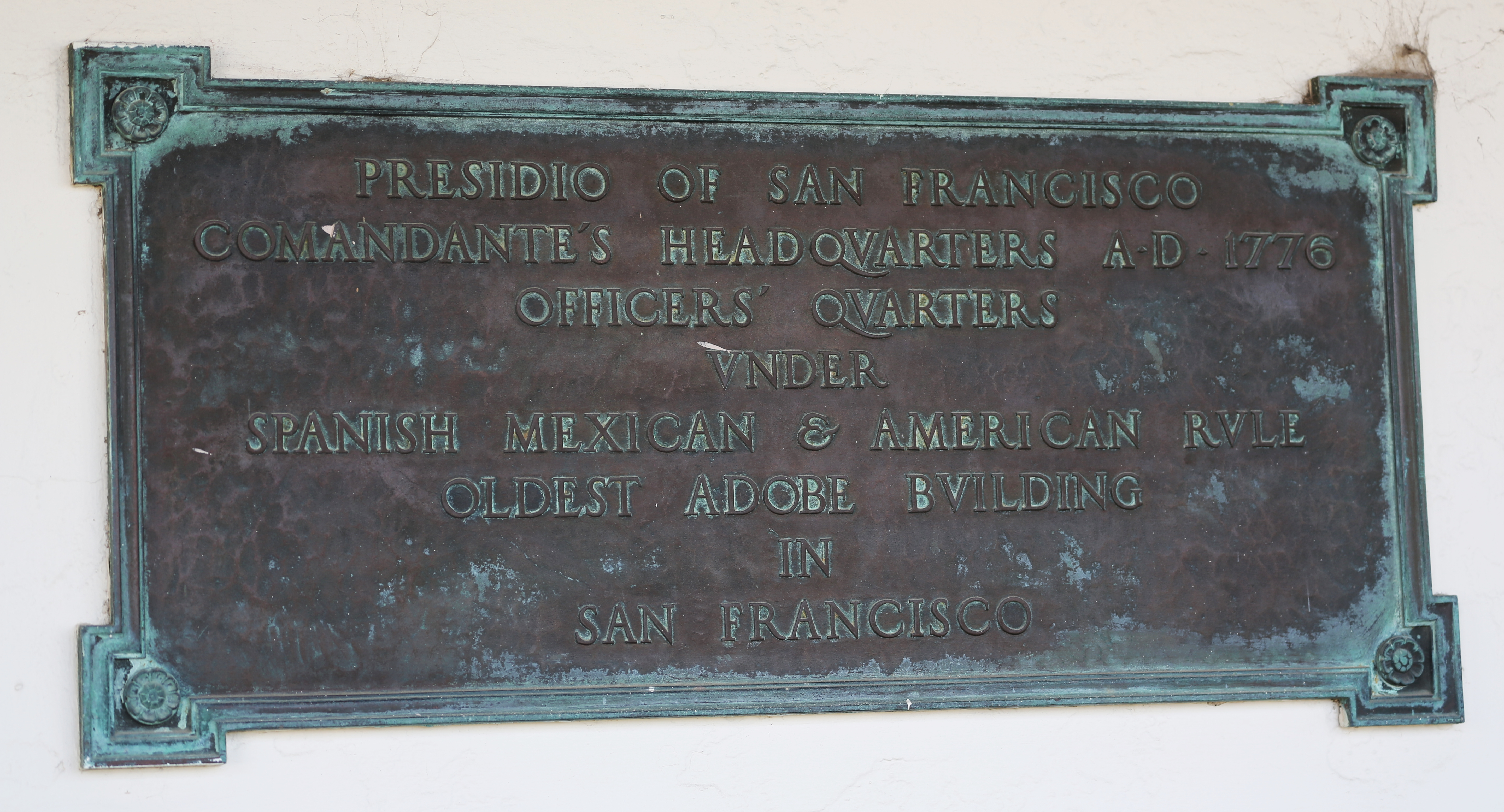 Sign of the Officer's Club in the Presidio, San Francisco's oldest building (TK)